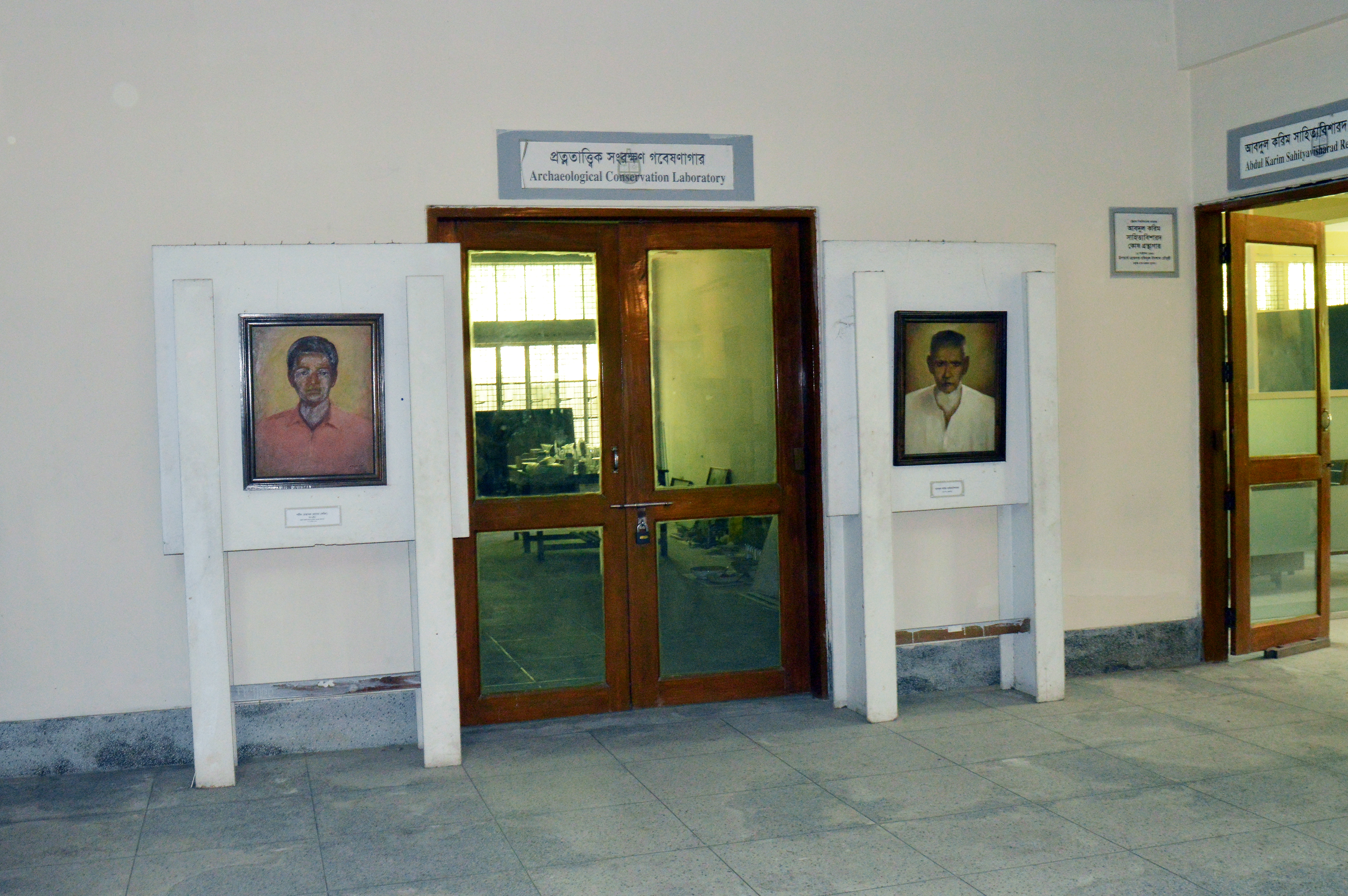 Archaeological Conservation Laboratory, Chittagong University Museum, University of Chittagong, Chittagong, Bangladesh.